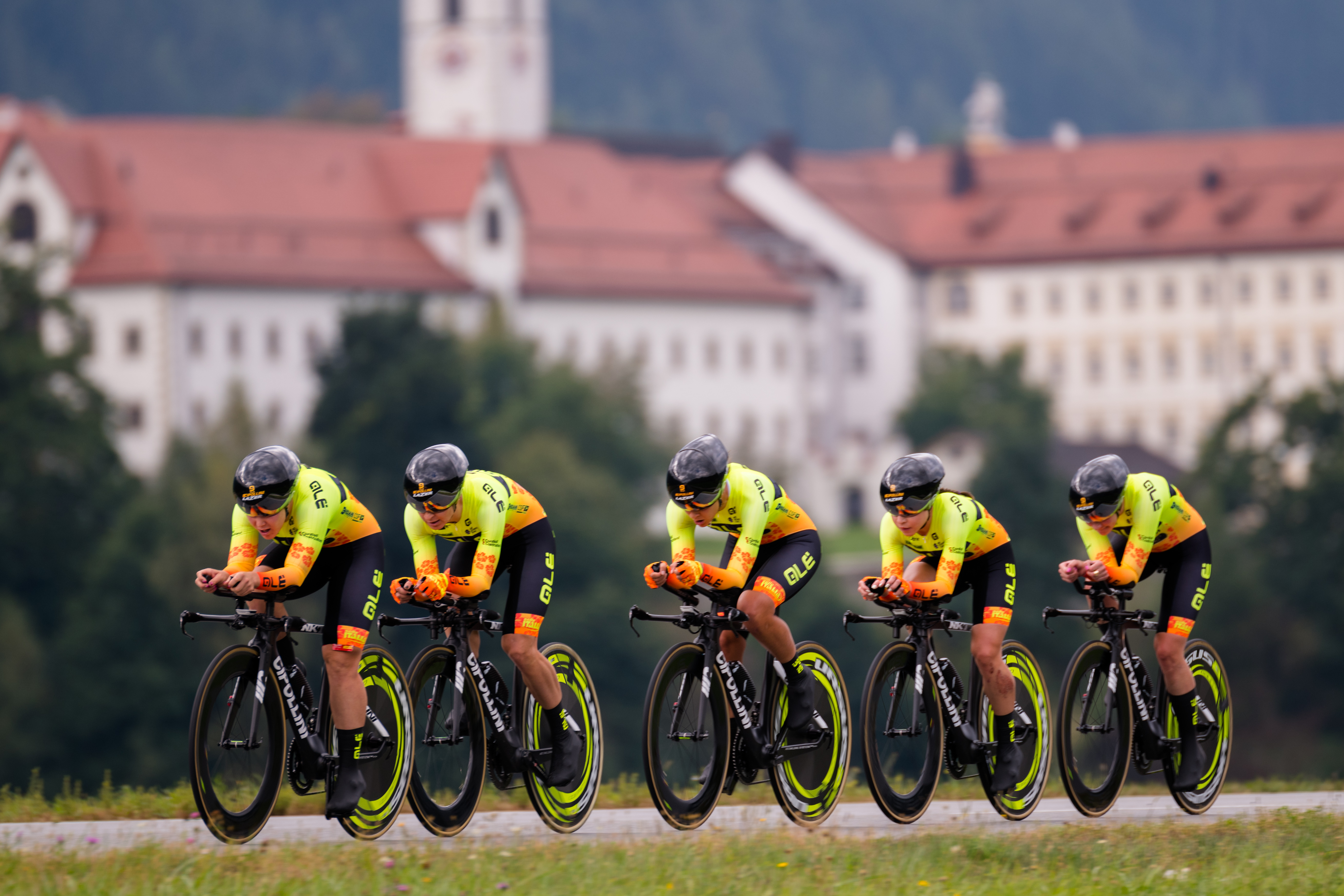 2018 UCI Road World Championships Innsbruck/Tirol Women's Team Time Trial. Picture shows: Team ale Cipolini